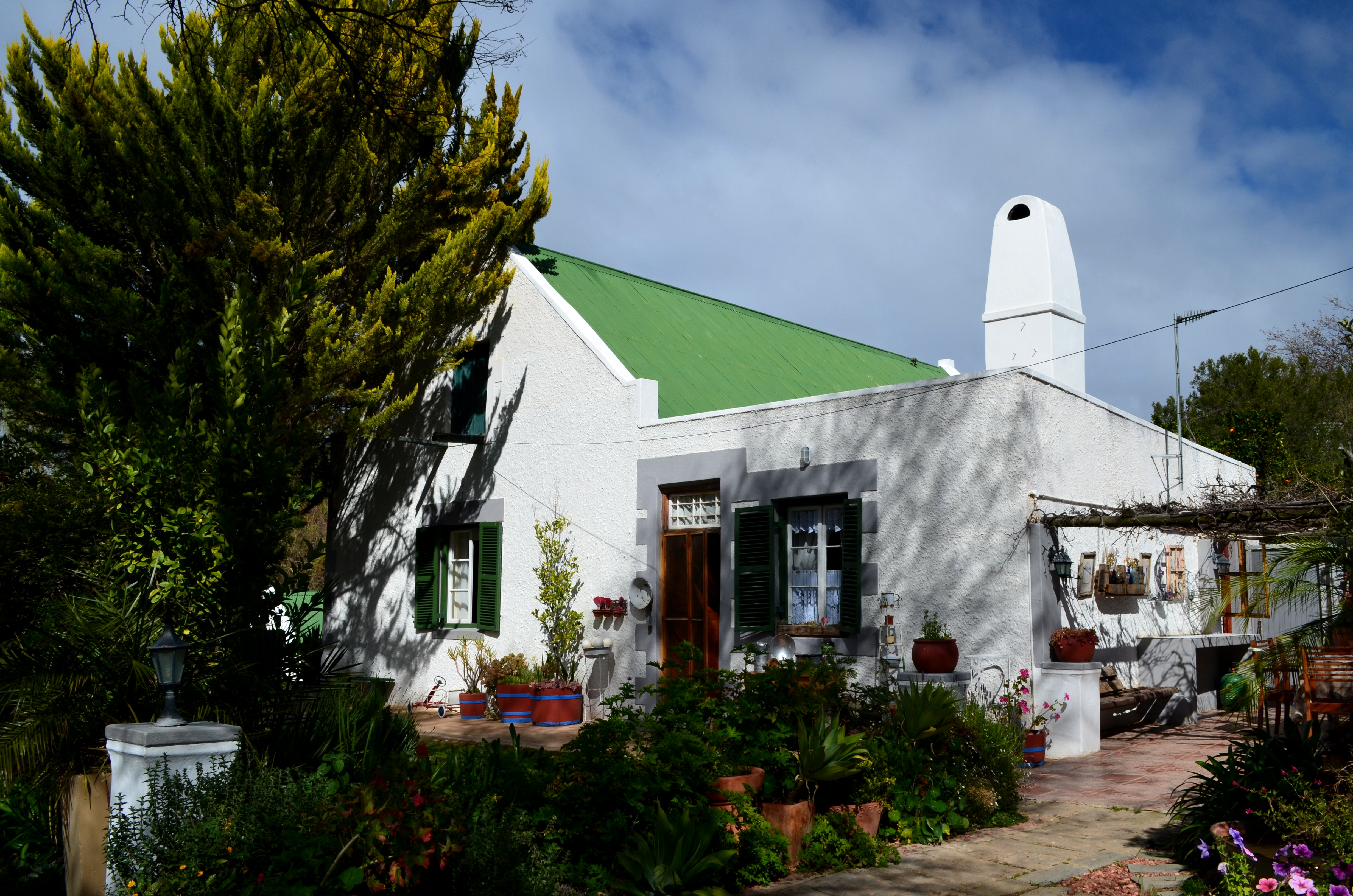 Historical farm in De Rust district with main residence showing a heritage plaque. This media shows a South African Protected Site with SAHRA file reference 000000.